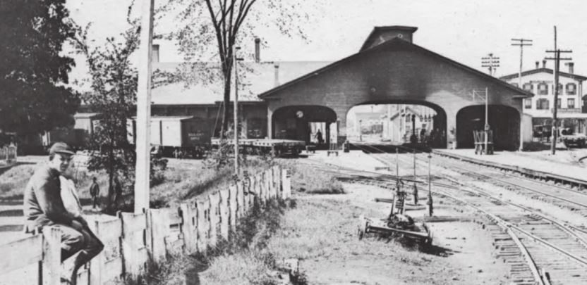 The 1848-built Ayer (ex-Ayer Junction, ex-Groton Junction) station in September 1895 just before demolition